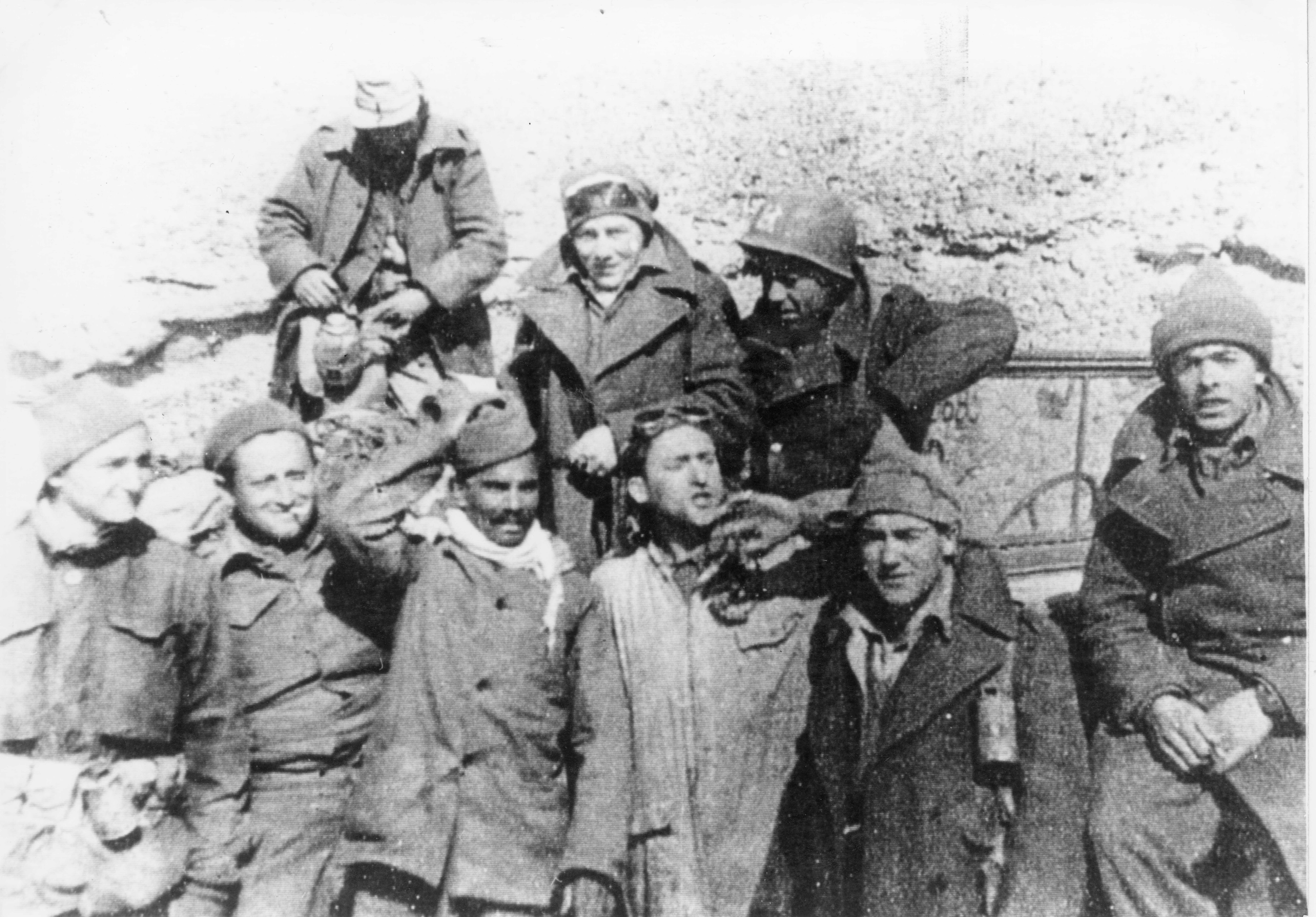 The Palmach, Israel Defense Forces